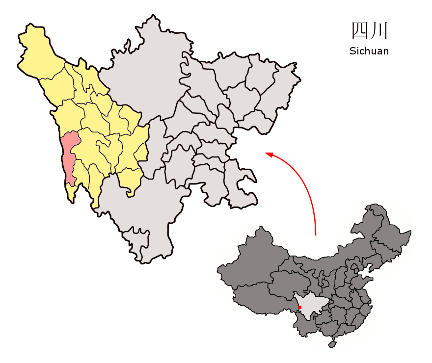 Location of Batang County (pink) and Garzê Prefecture (yellow) within Sichuan province of China Map drawn in september 2007 using various sources, mainly : Sichuan province administrative regions GIS data: 1:1M, County level, 1990 Sichuan Counties map from